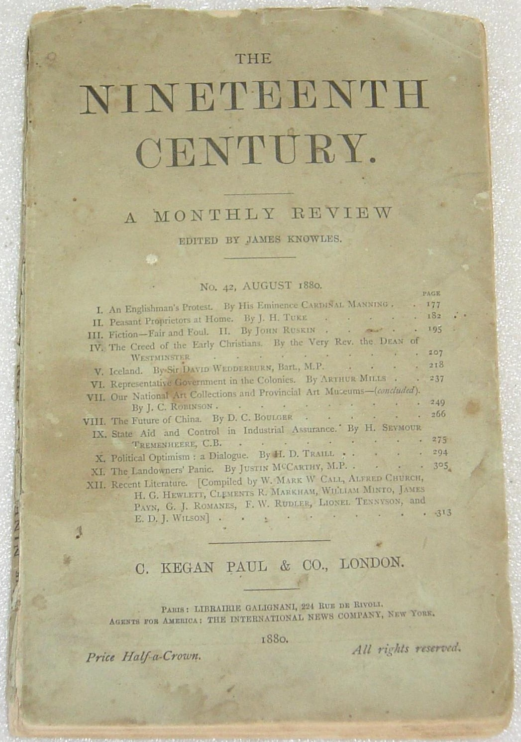 Front cover of The Nineteenth Century monthly magazine, edited by James Knowles, August 1880 edition